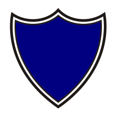 Corps badge for 3rd division, XXIII corps Union Army (American Civil War)